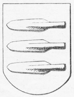 Coat of arms of Århus, a chartered town in Denmark, 1581 version. Illustration from the article Om danske By- og Herredsvaaben written by Anders Thiset and published in Tidsskrift for Kunstindustri 1893-1894.